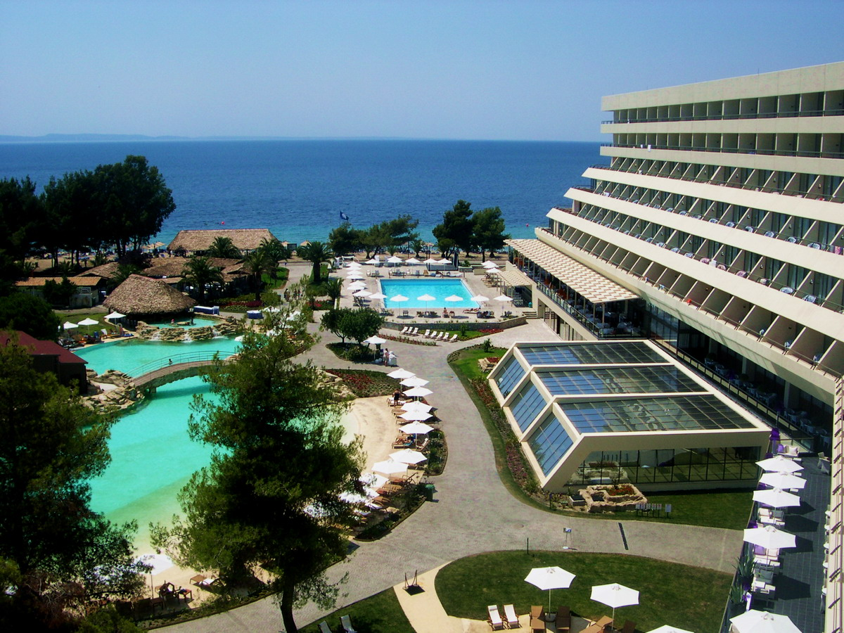 Sithonia Hotel in Porto Carras Resort, Greece.